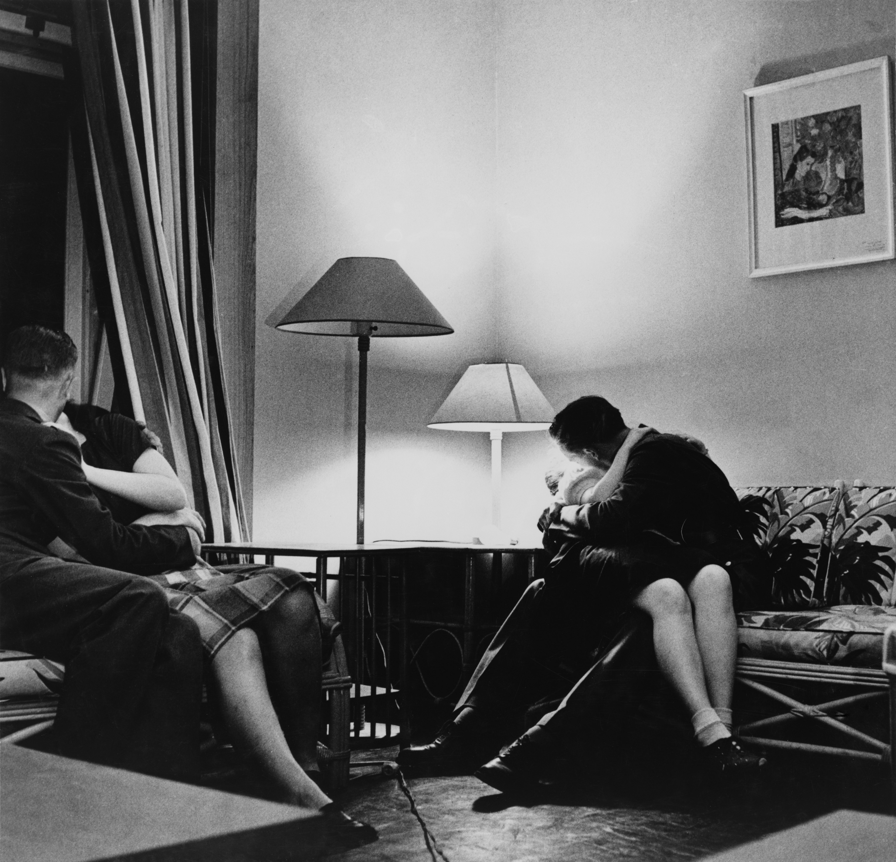 Photo of two couples separately engaging in kisses. Caption: "Arlington, Virginia. Girls entertaining their guests in one of the two card rooms, at a residence for the women who work in the U.S. government for the duration of the war. More privacy is afforded here than in the main lounge."